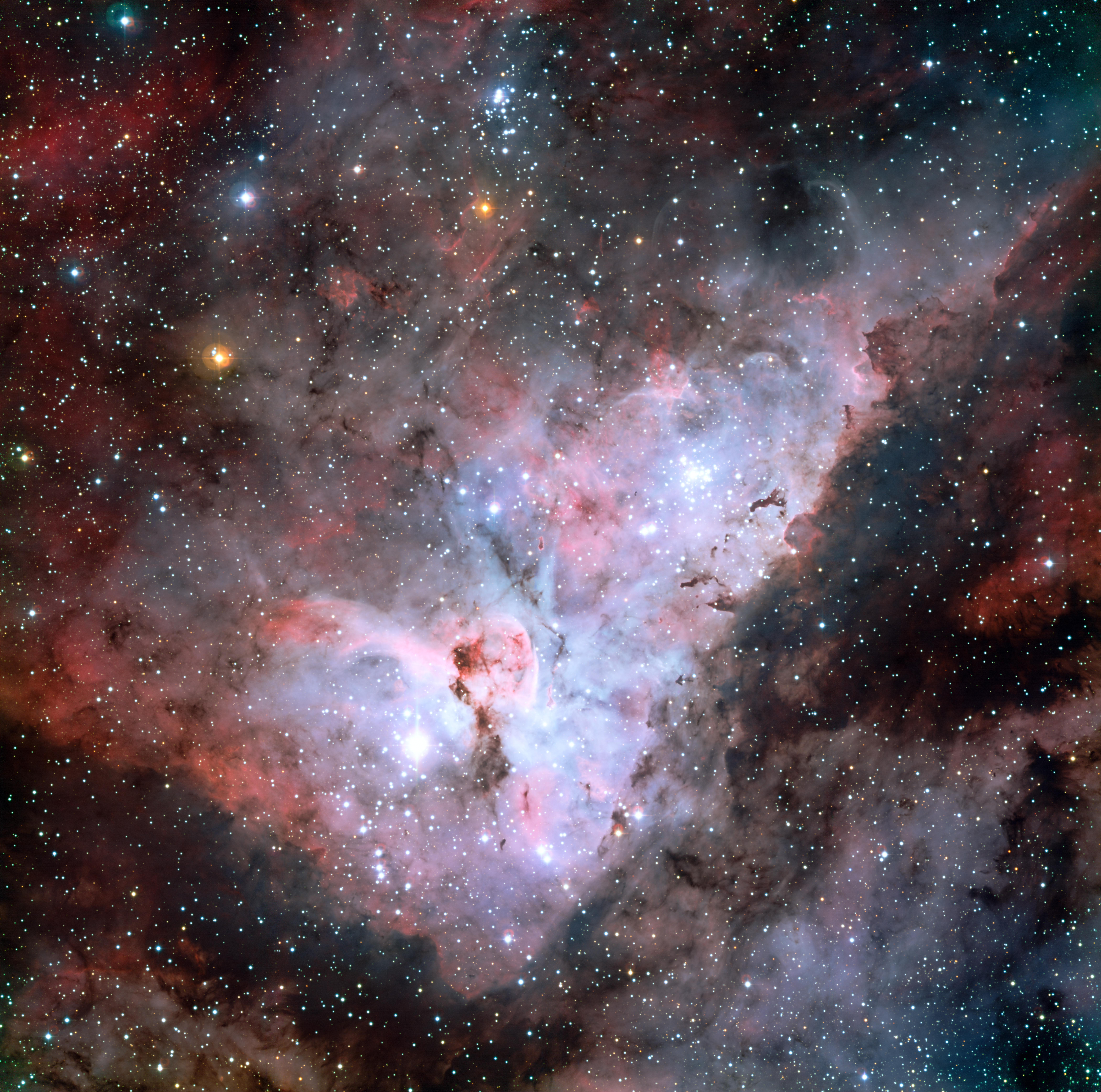 Colour-composite image of the Carina Nebula, revealing exquisite details in the stars and dust of the region. Several well known astronomical objects can be seen in this wide field image : to the bottom left of the image is one of the most impressive binary stars in the Universe, Eta Carinae, with the famous Keyhole Nebula just adjacent to the star. The collection of very bright, young stars above and to the right of Eta Carinae is the open star cluster Trumpler 14. A second open star cluster, Collinder 228 is also seen in the image, just below Eta Carinae. The Carina Nebula also bears the NGC 3372 designation. On this image, North is up and East is to the left. The field of view is 0.55 x 0.55 degrees, covering a 72 x 72 light-year region at the distance of the nebula.